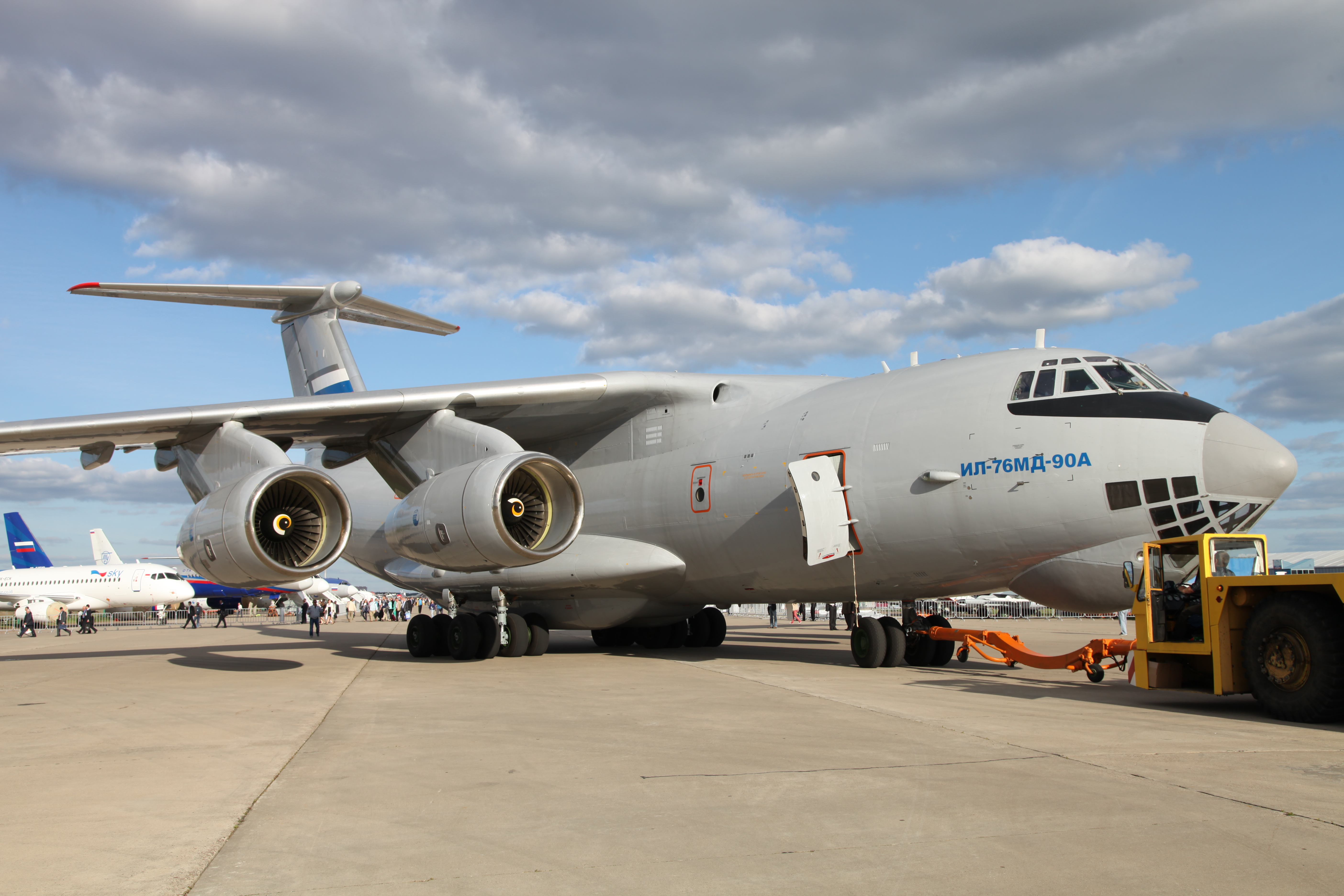 IL-79MD-90A